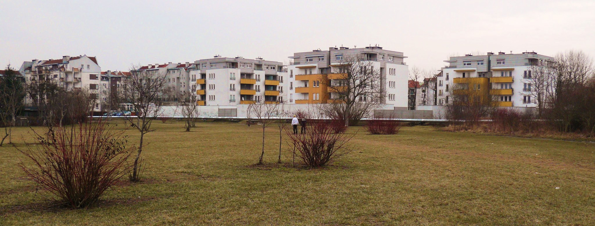 Przemyslawa District in Poznan.